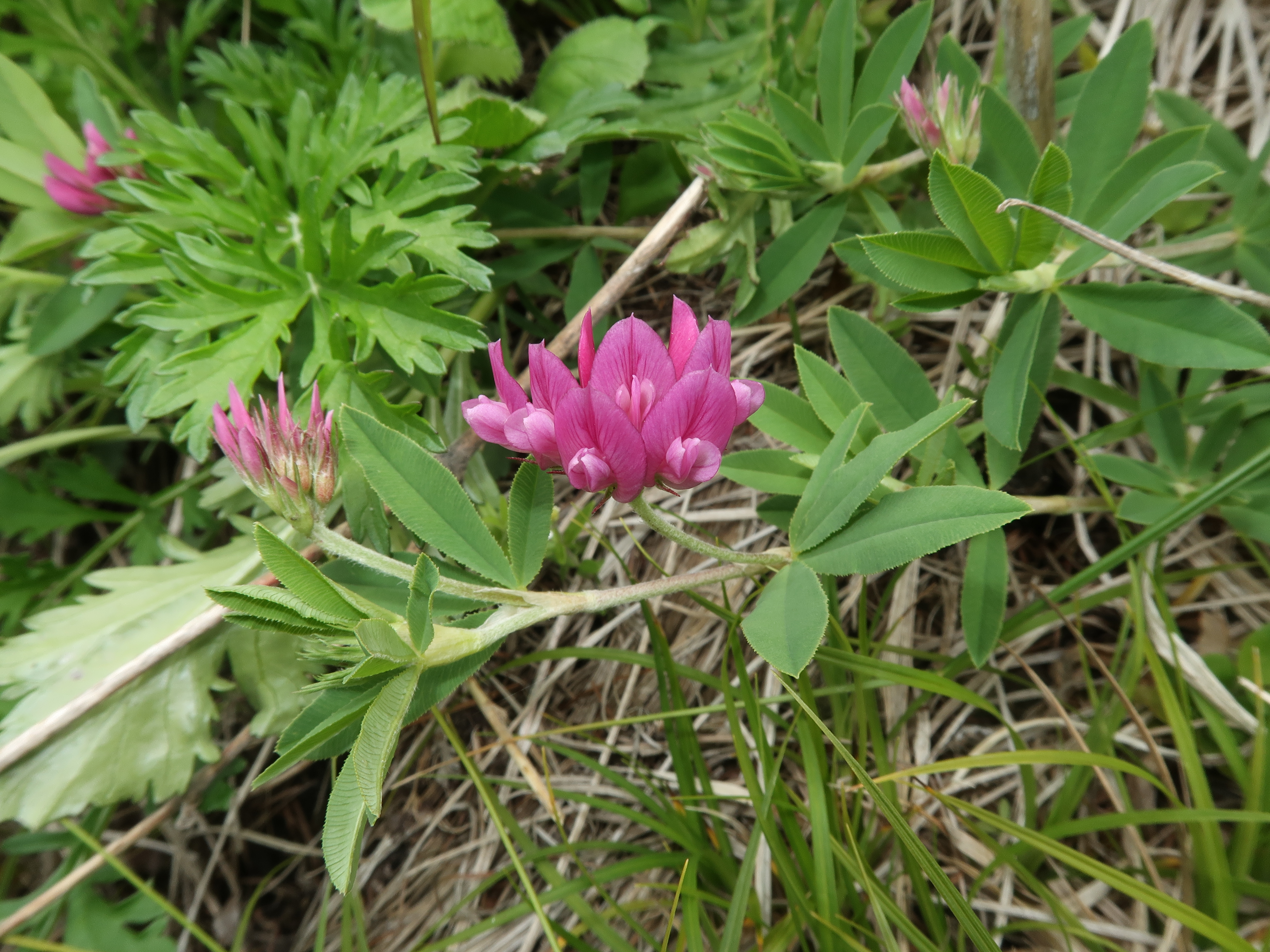 Trifolium lupinaster, Toshin area, Nagano pref., Japan